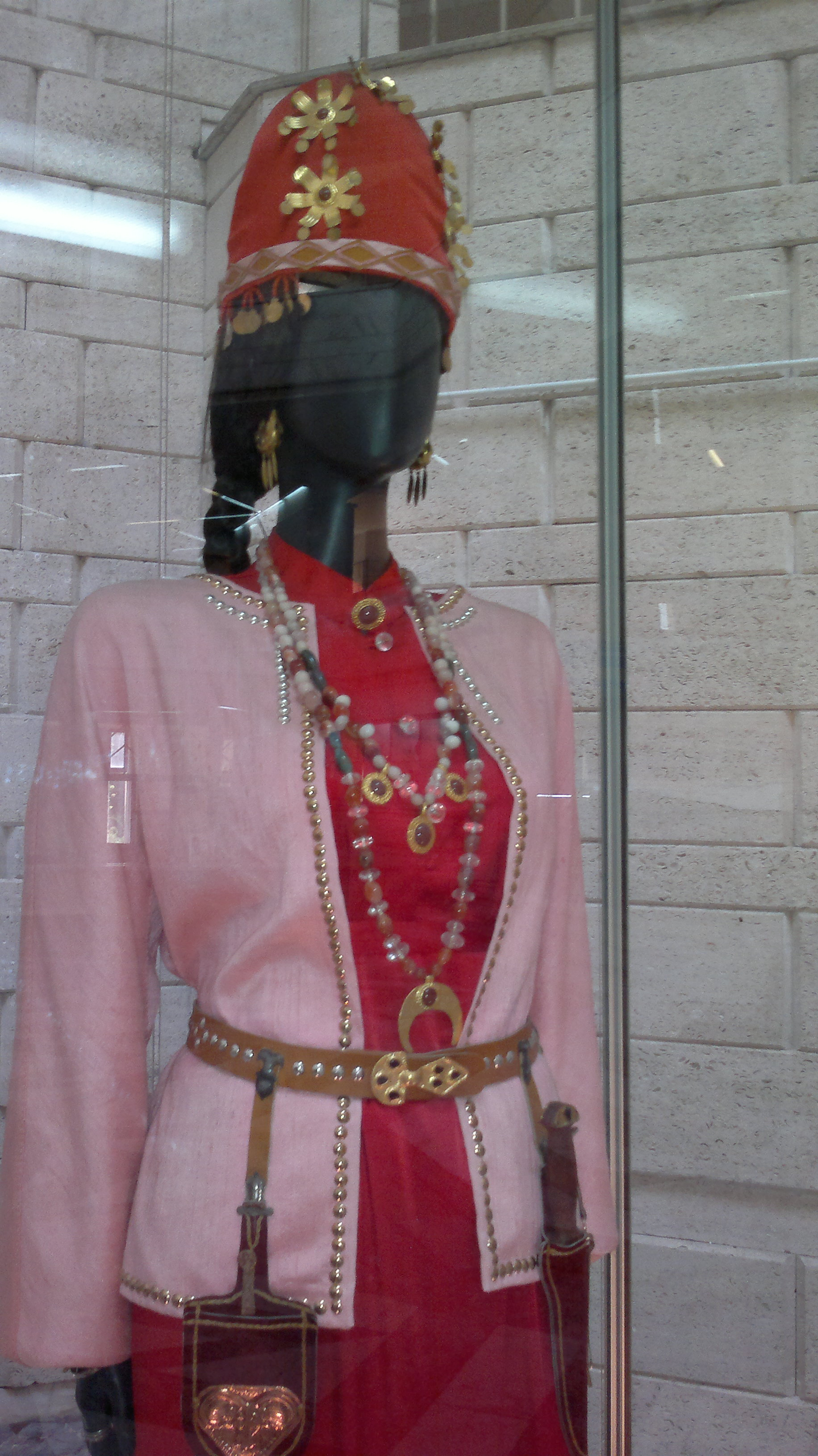 Clothes and decorations of a woman of the Kanguy state